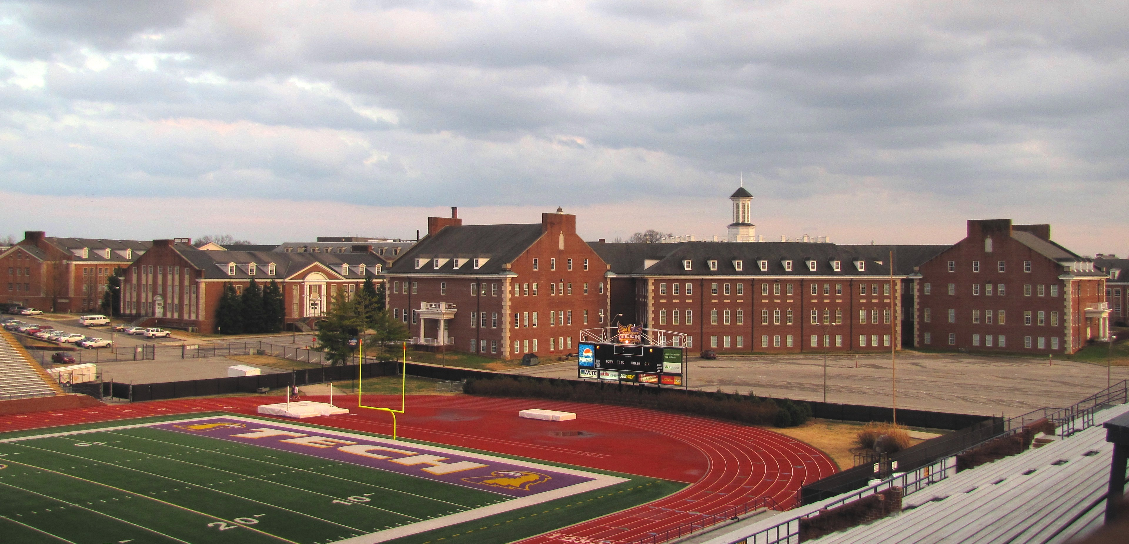 Tennessee Technological University in Cookeville, Tennessee, USA, viewed from West Stadium.